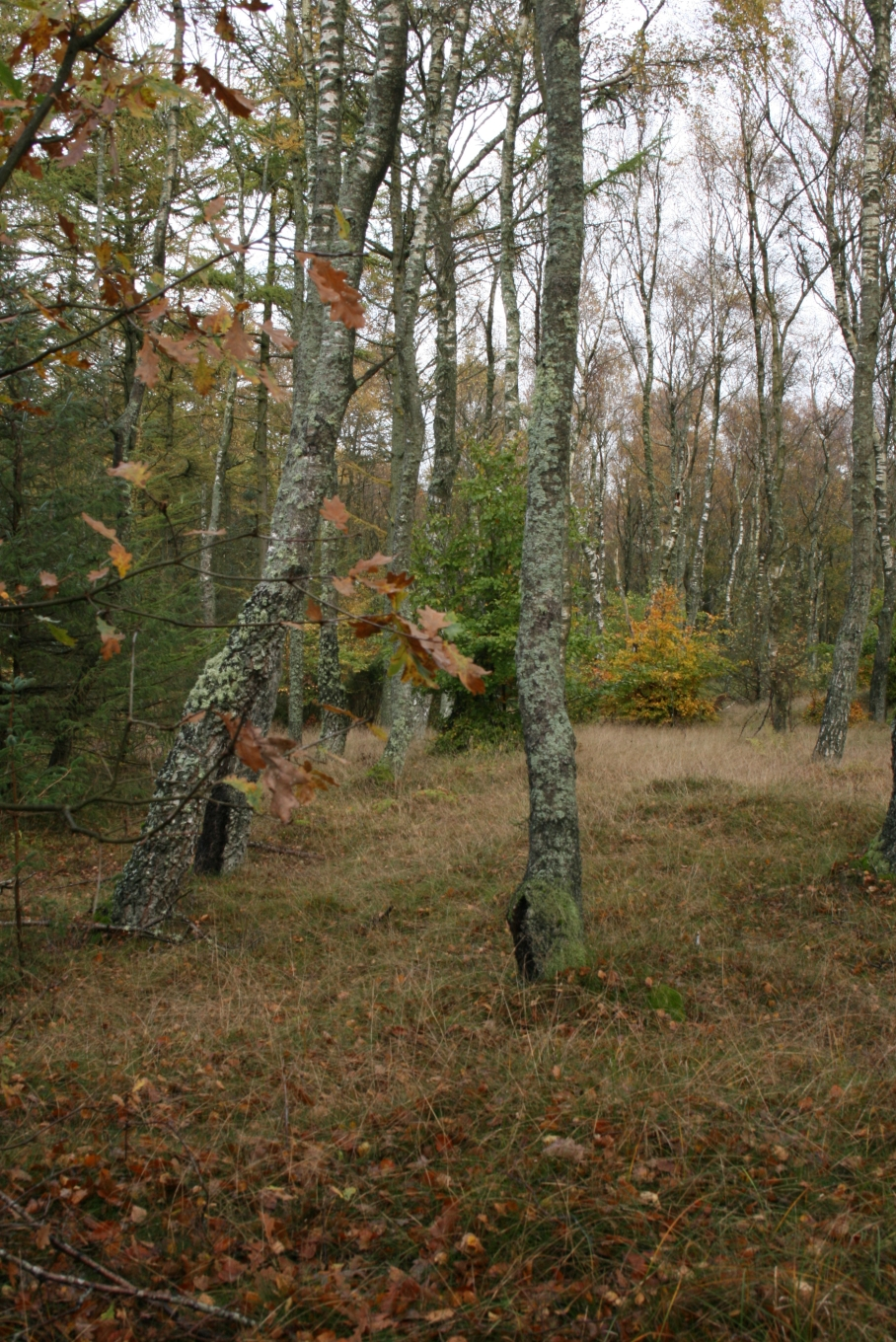 Quercus robur- and Betula pendula-forest at Tversted Plantation, Denmark.